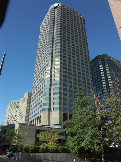 Tower of Complexe Desjardins, Montreal. Photo by: User:Gene.arboit